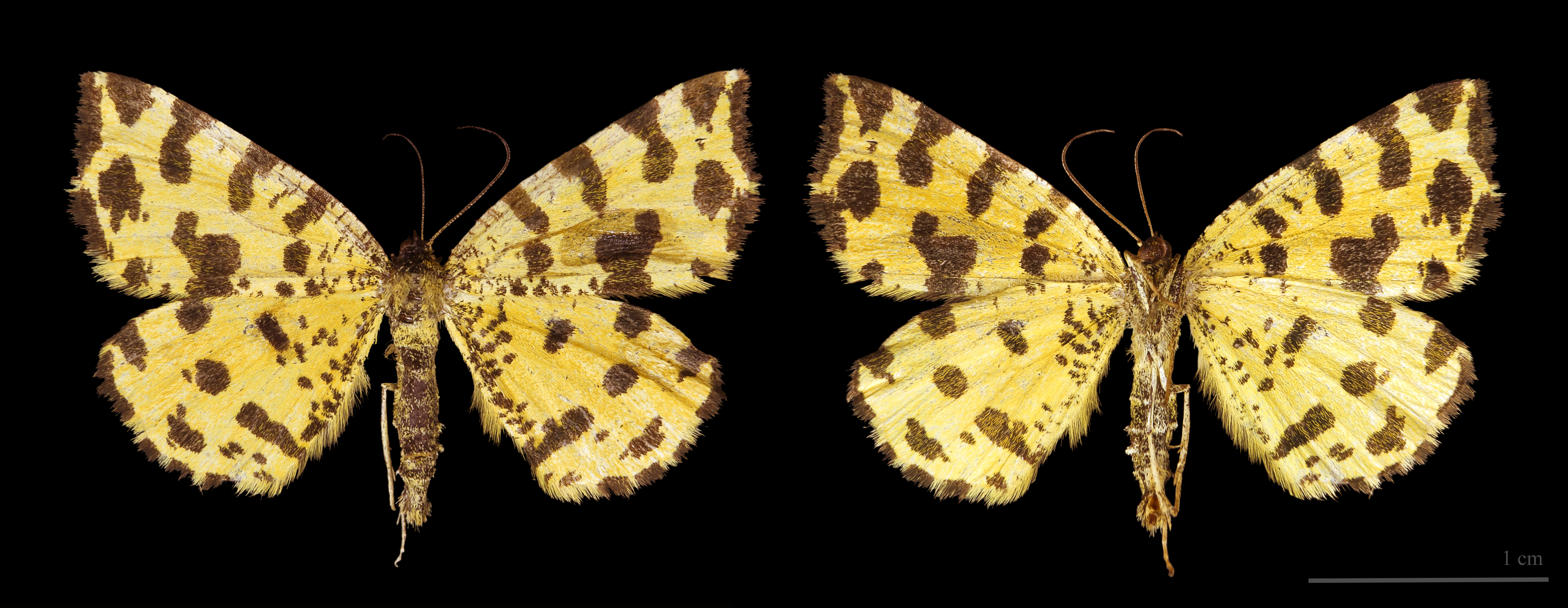 Speckled Yellow ♂ - Two views of same specimen Locality: Peyroutets, Fontenilles, Haute-Garonne, France